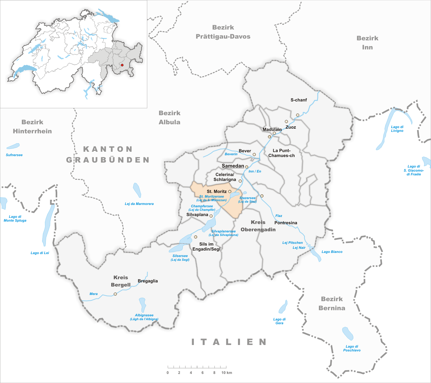 Municipality St. Moritz